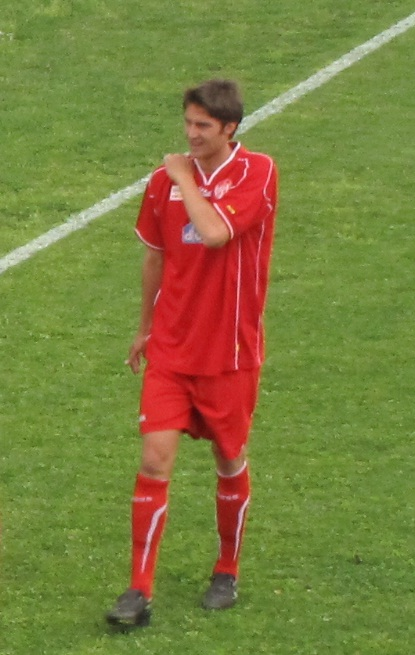 Manuel Scavone, midfield player and F.C. Südtirol-Alto Adige's top scorer of the 2009-10 season